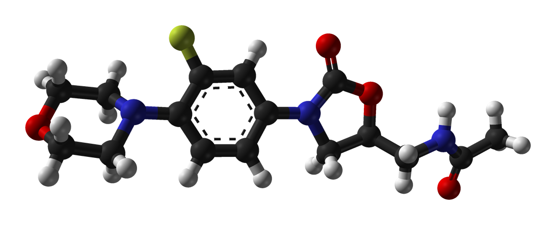 Ball-and-stick model of the linezolid molecule, C16H20FN3O4, as found in the crystal structure. X-ray diffraction data from Anal. Sci. X (2008) 24, x43-x44. Model constructed in CrystalMaker 8.1. Image generated in Accelrys DS Visualizer.